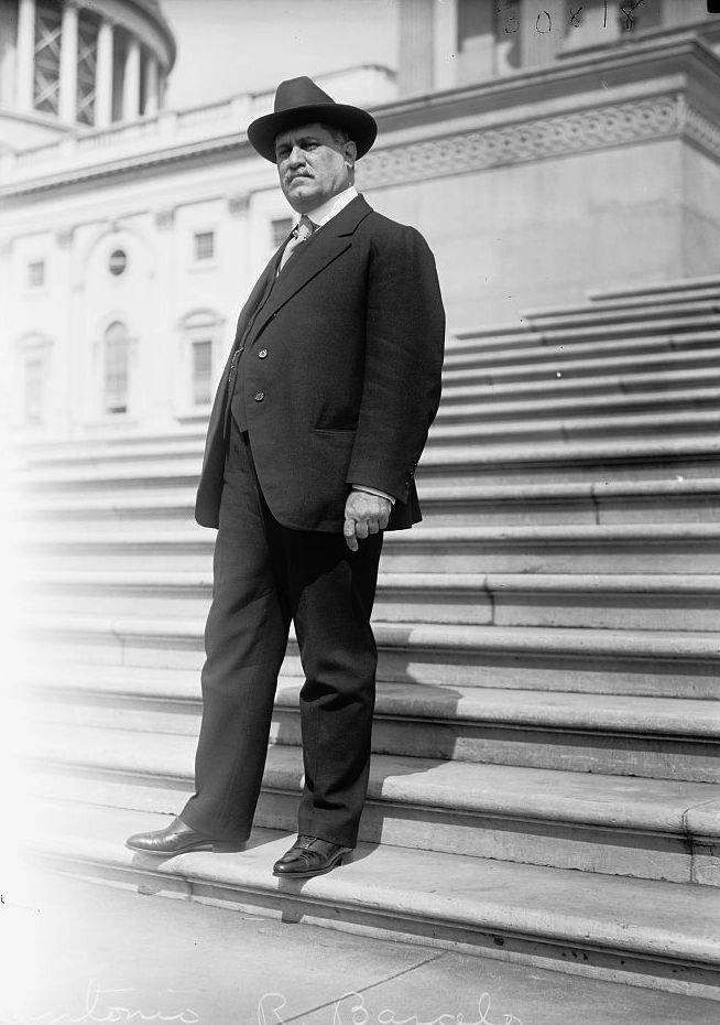 BARCELO, ANTONIO R. PUERTO RICAN MISSION; HEAD OF MISSION